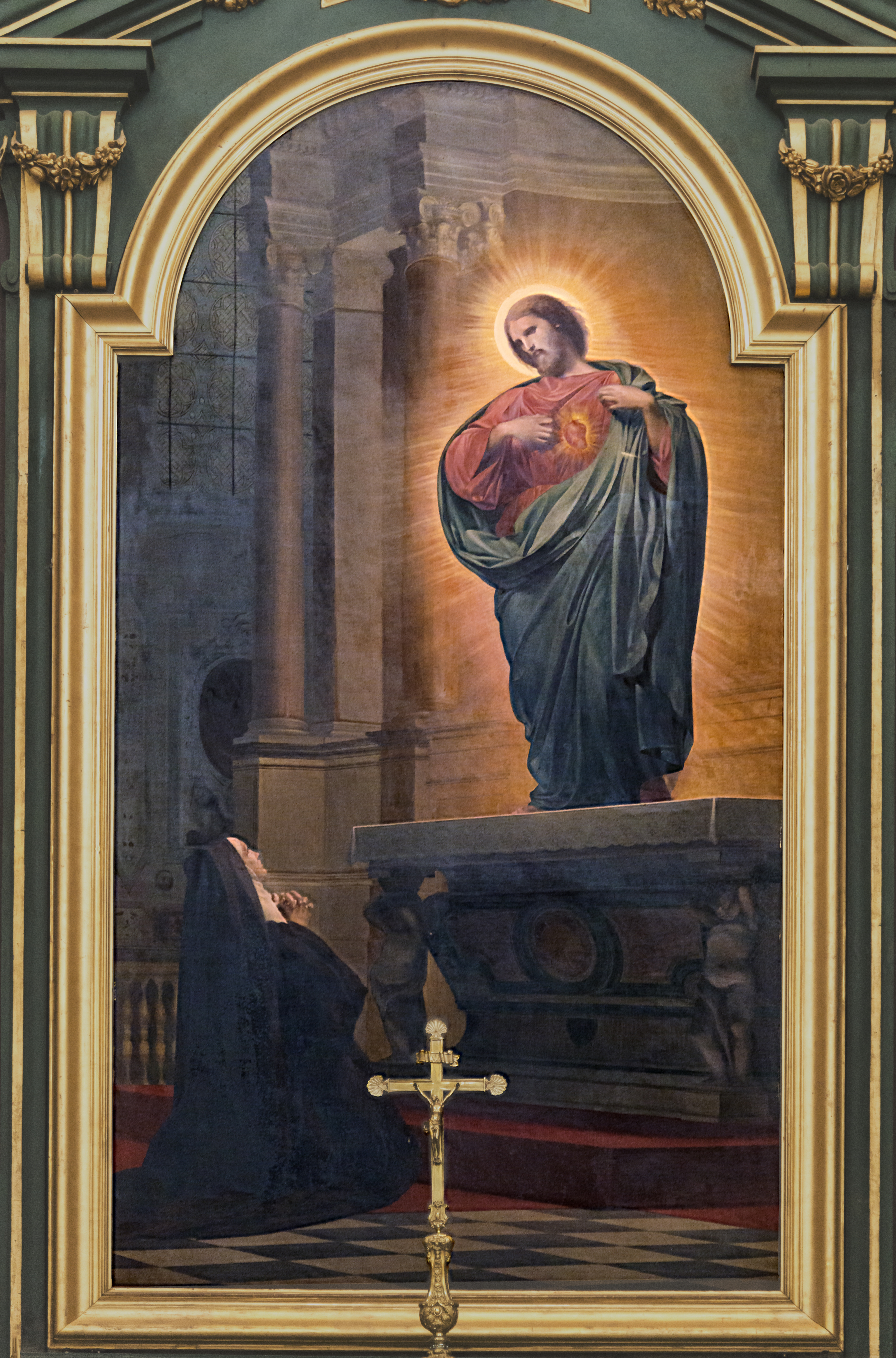 Montauban Cathedral, Tarn et Garonne, France - Oil on canvas in the right arm of the transept: "Vision of Margaret Mary Alacoque, nun of the Visitation" by Armand Cambon, friend and disciple of Ingres.